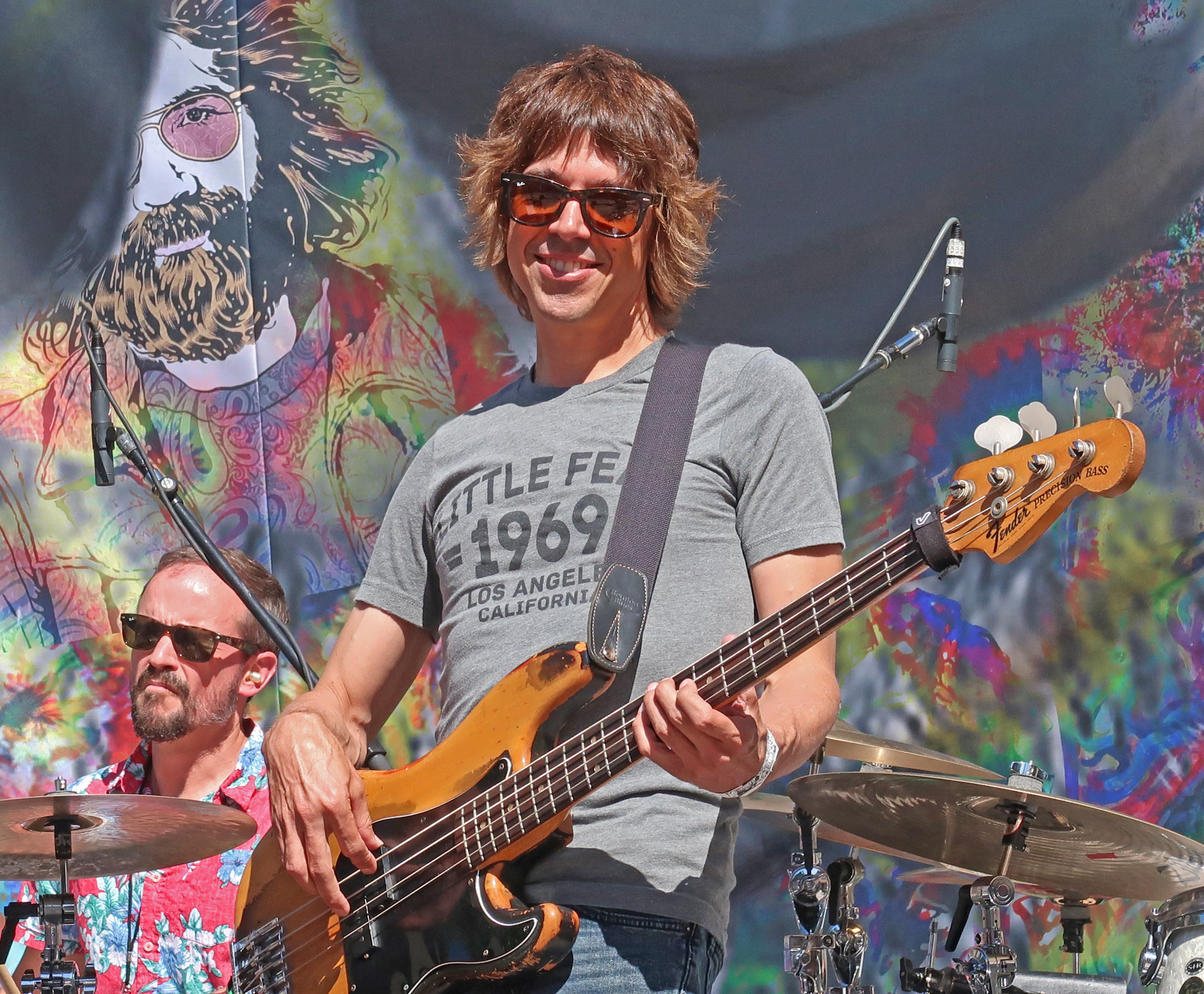 Steve Adams performing with Mars Hotel at Jerry Day, San Francisco, 8/4/19. Photo by Glenn Mar.